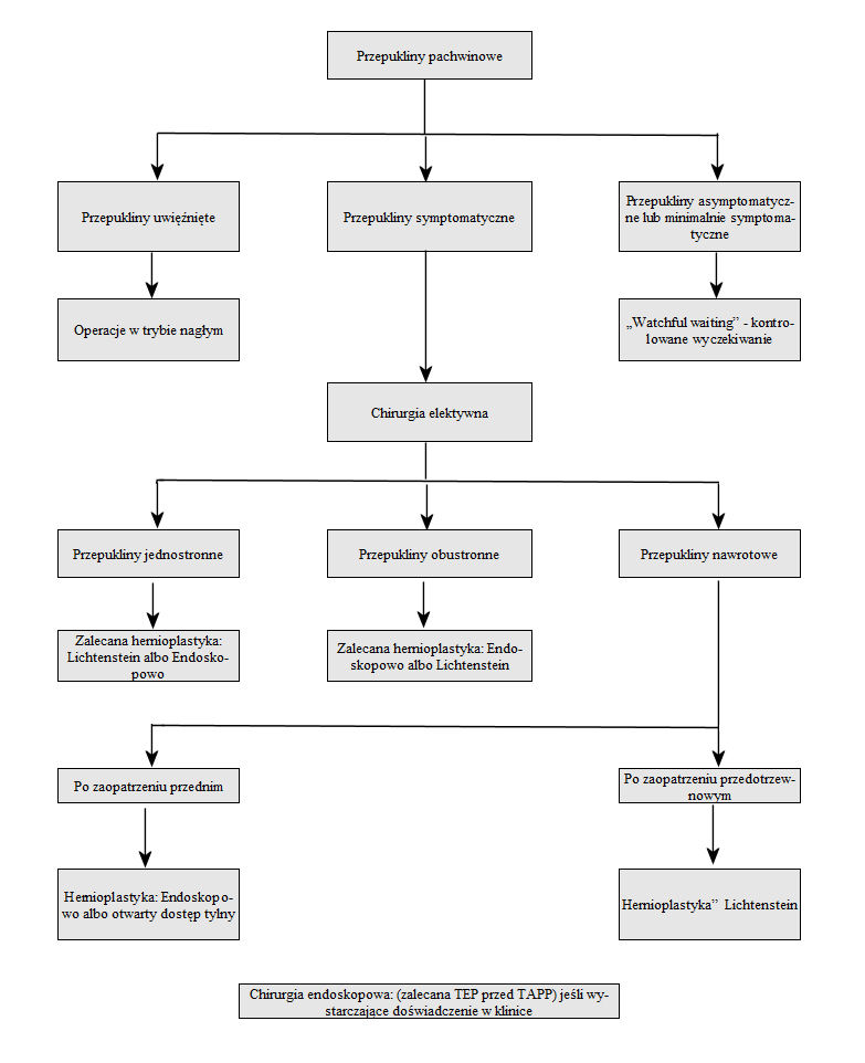 algorithms for the treatment of inguinal hernia